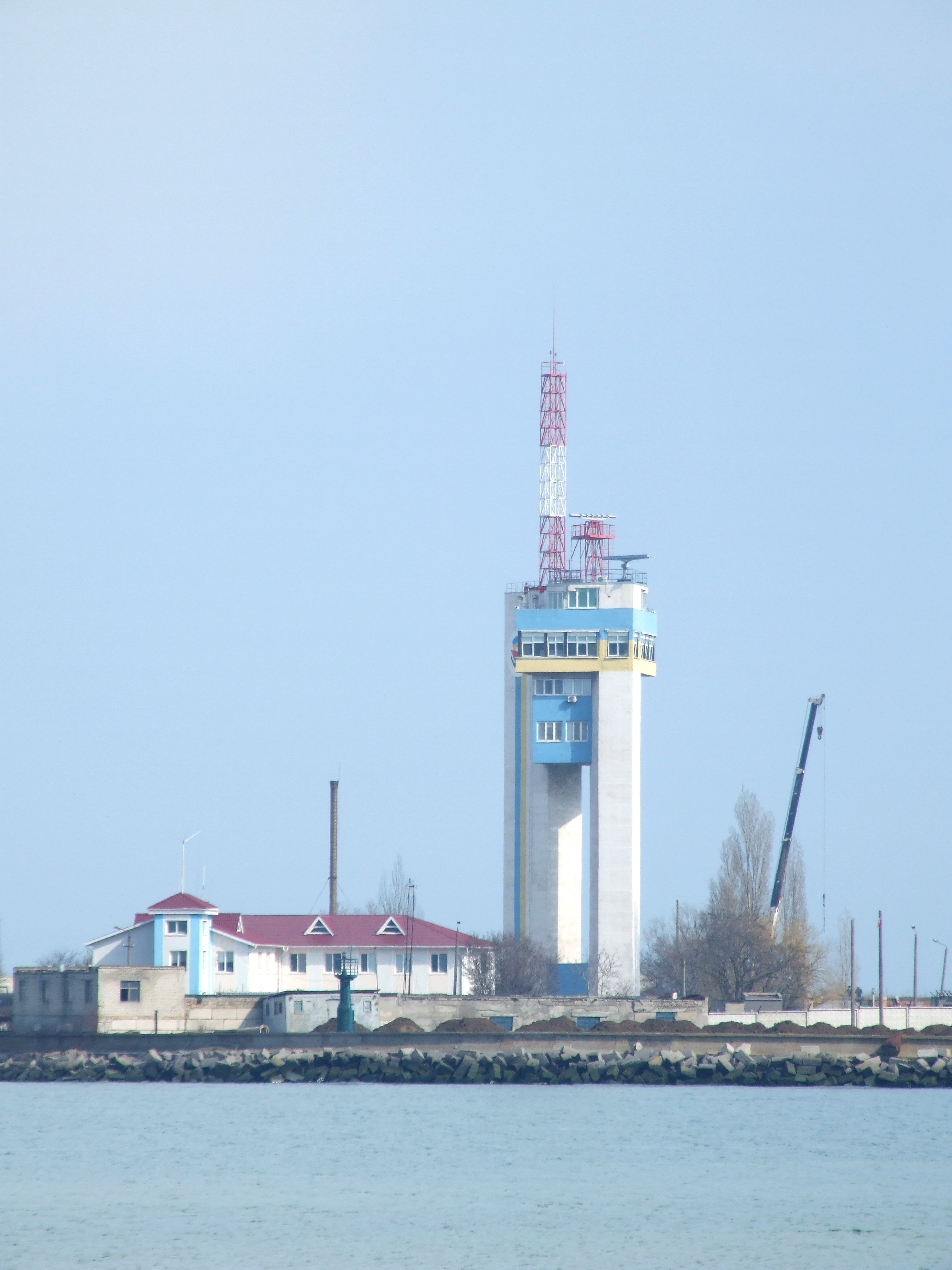 The coast radar station near the port of Yuzhne, Odessa Oblast, Ukraine